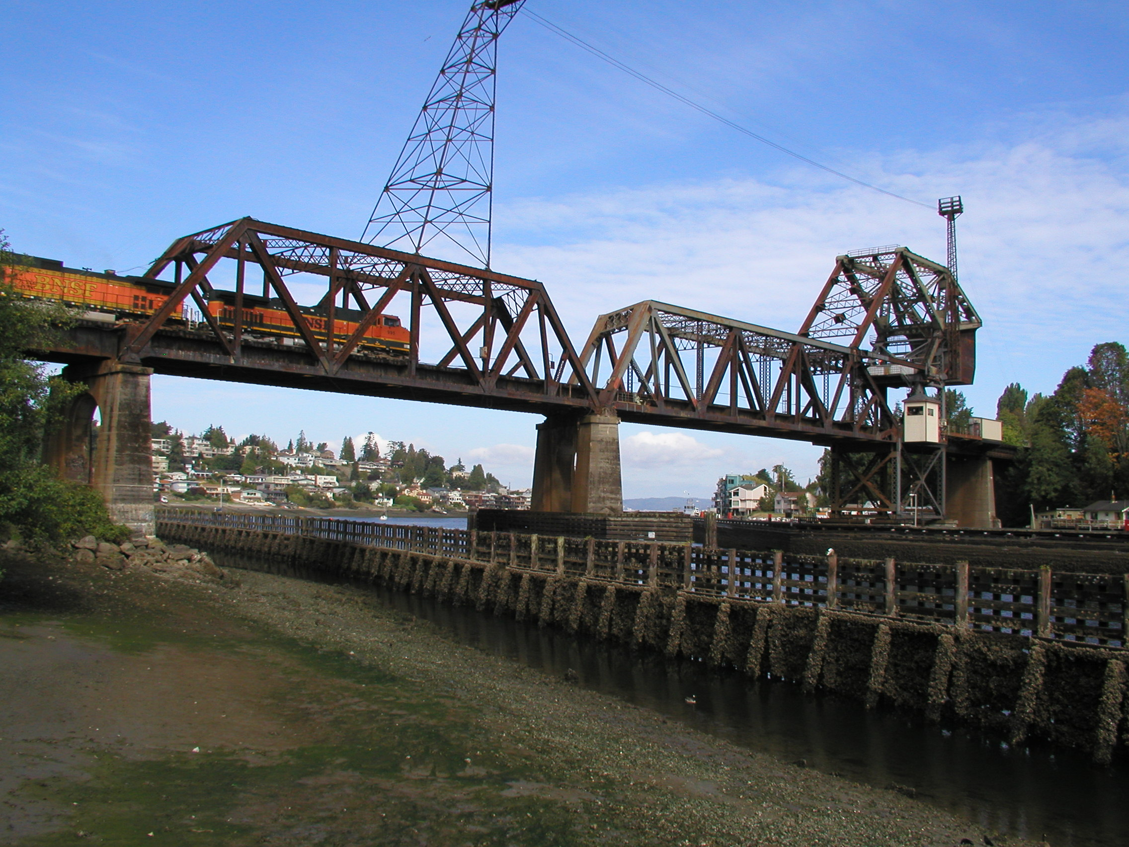 The Salmon Bay Bridge over Salmon Bay in Seattle, Washington.